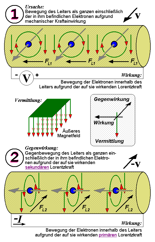 Lorentz forces on an electric conductor moved mechanically in a magnetic field: (2) primary Lorentz force as origin of the induced voltage, (3) secondary Lorentz force due to flow of an induced current, hindering the initial move of the conductor